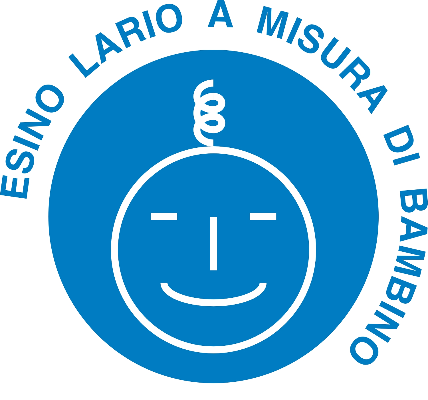 A series of logos and urban design commissioned in 2011 by Associazione Amici del Museo delle Grigne Onlus for Vestire i paesaggi and Ecomuseo delle Grigne. The logos are used as urban signs to provide information about services for children. Design by TooA Francesca Cogni e Donatello De Mattia